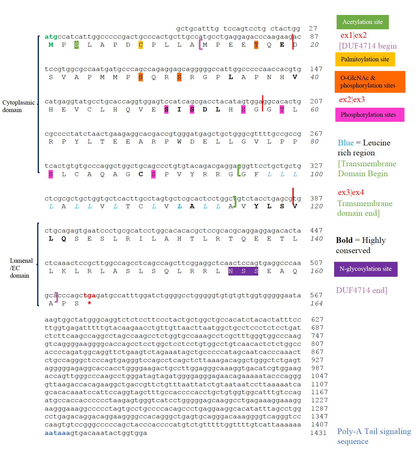 This figure displays a conceptual translation of the LSMEM2 protein. Predicted regions, domains, and post-translational modifications are marked on the primary transcript.